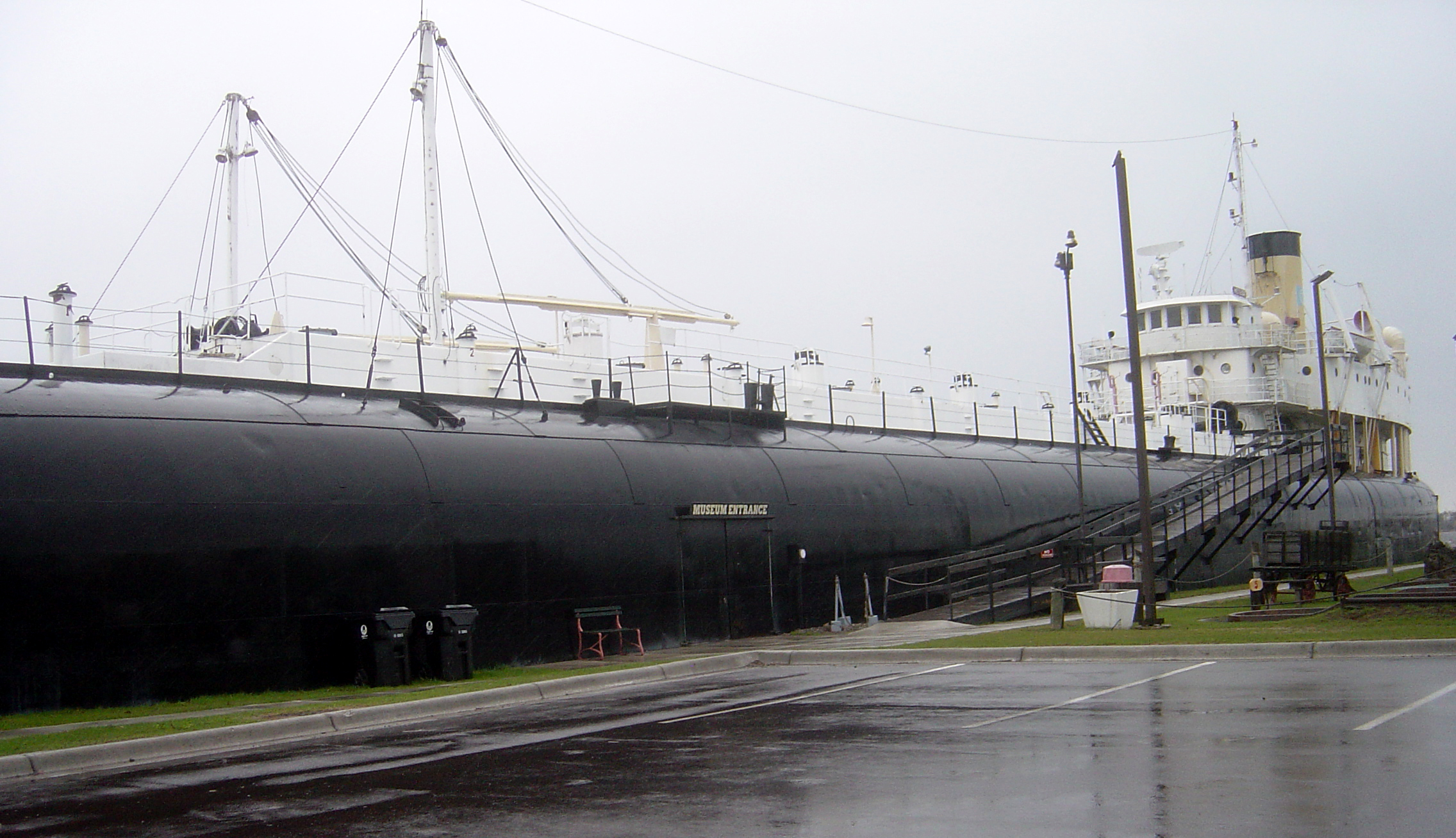 The SS Meteor, the last existing whaleback ship; located in the harbor area of Superior Wisconsin